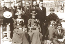 Missionaries ready to sail on the fifth voyage of the Adventist missionary schooner Pitcairn